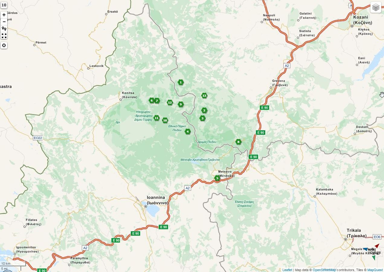 Pindos Aromanian villages which signed letter sent to Romanian Prime Minister I. C. Brătianu asking autonomy on the 27th July 1917 from Samarina